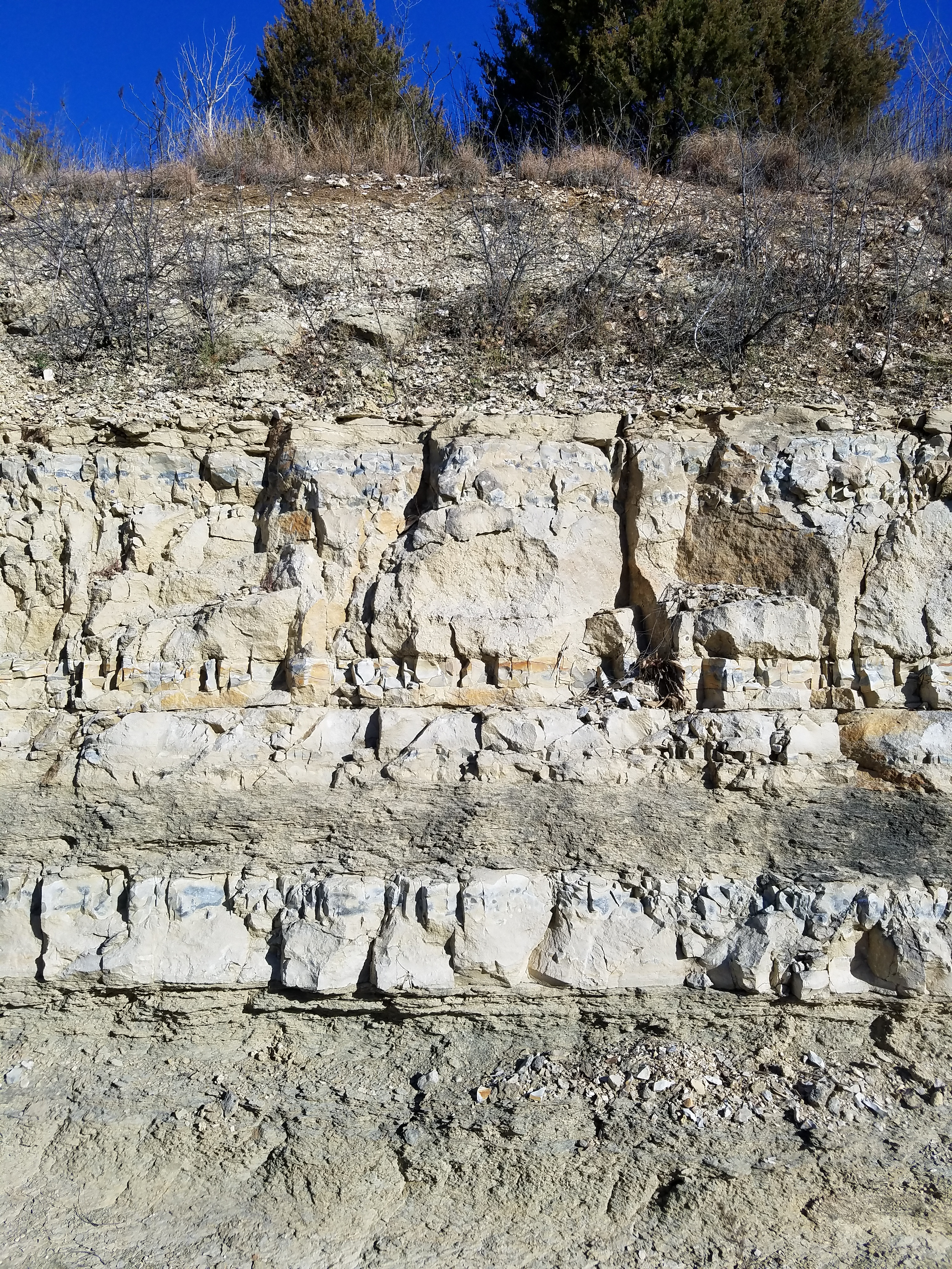 Threemile Limestone Member of the Wreford Limestone Formation, on Seth Child Road (Kansas Highway 113), below Top of the World.